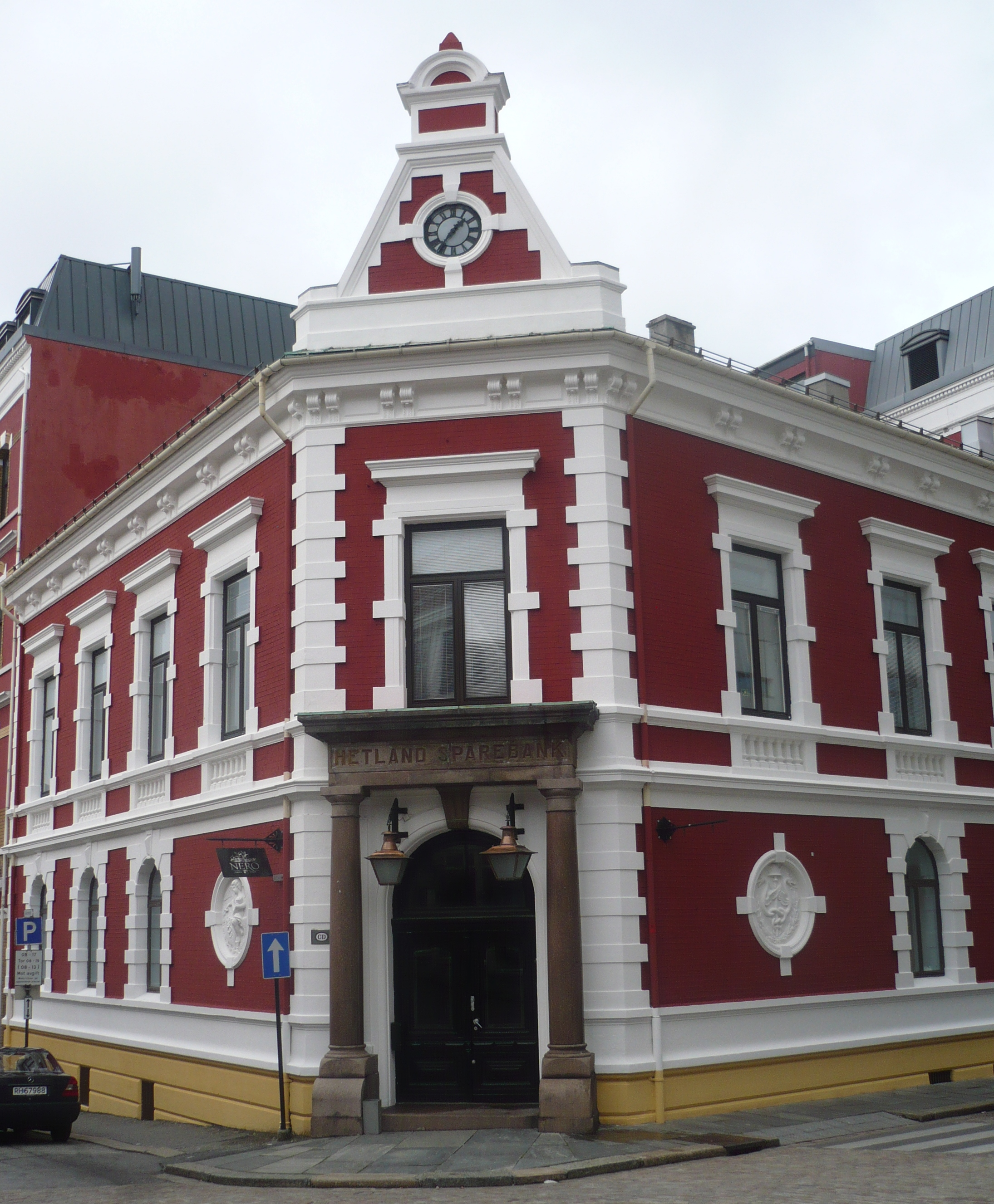 The former house of Stavanger Privat Bank and Hetlandsbanken in Øvre Holmegate in Stavanger.